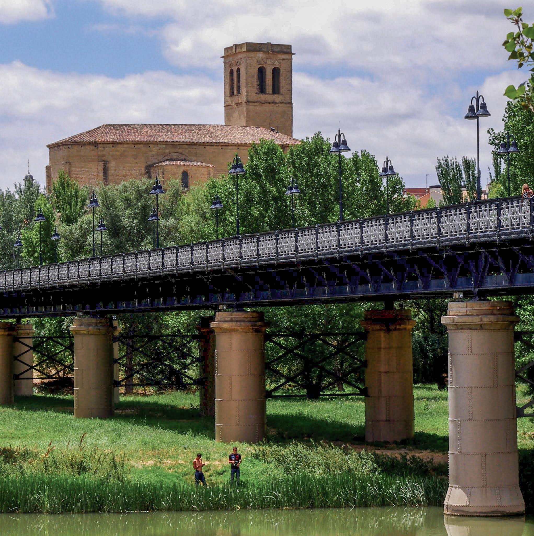 The Iron Bridge, Logroño